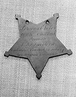 Reverse of a Medal of Honor awarded to Seaman John Ortega, USN, who served twice with landing parties from USS Saratoga during the Union blockade in August and September of 1864.